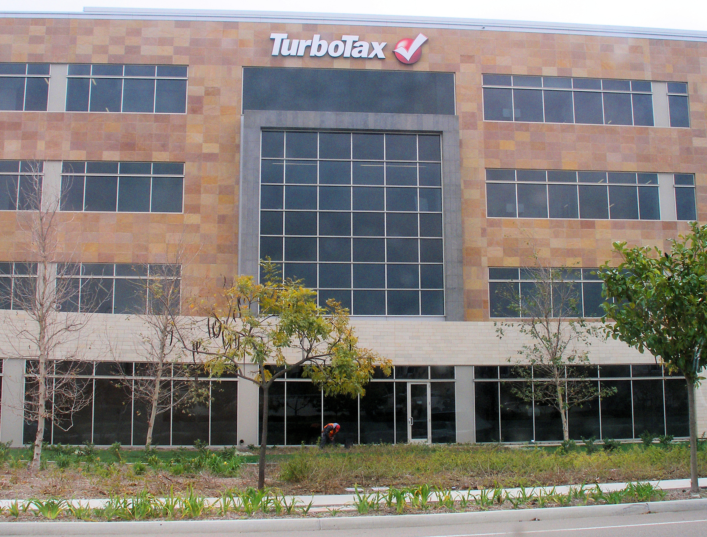 The headquarters of Intuit Consumer Tax Group at the northern end of San Diego. This is where Intuit develops its flagship tax return preparation product, TurboTax.